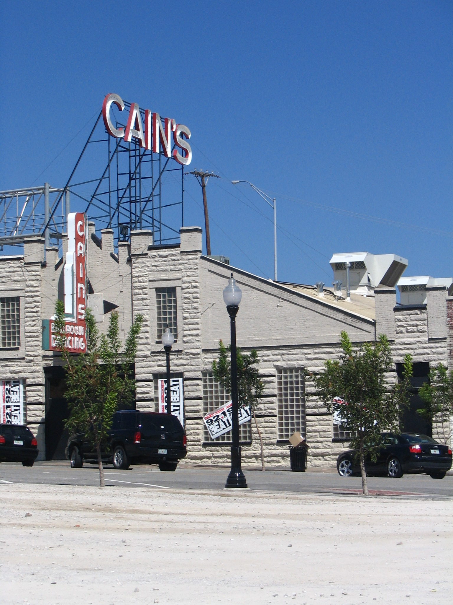 Cain's Ballroom in Tulsa, OK.